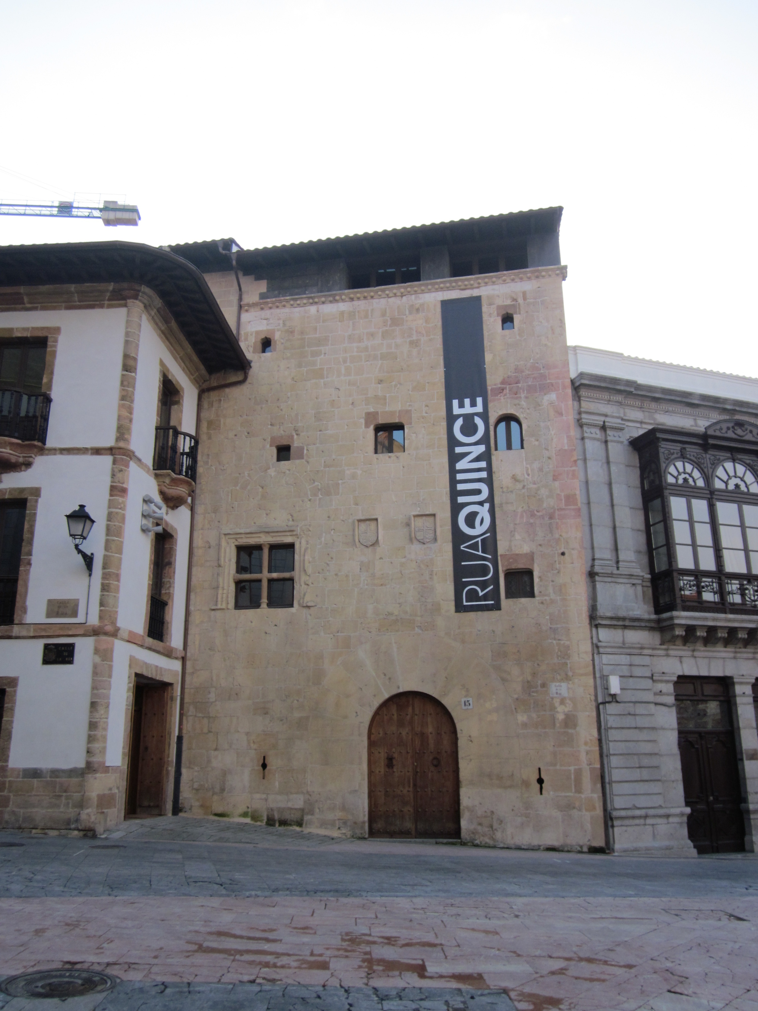 Casa de la Rúa. The oldest civil building, s. XIII, in Oviedo, Principality of Asturias. Spain.